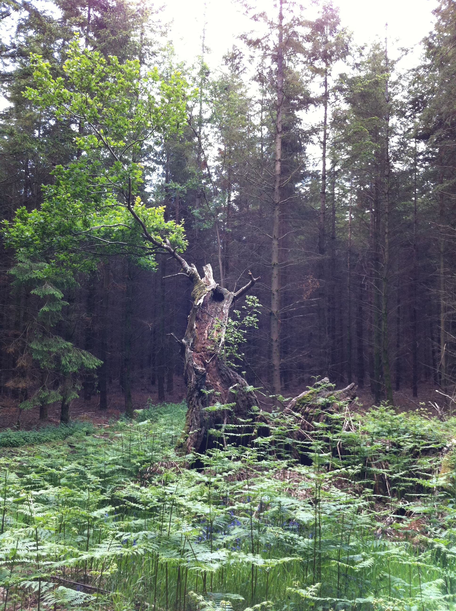 Duke's Vaunt is one of the oldest Oak Trees in the world at 1,200 years old. It lives in Savernake Forest, Wiltshire, UK.